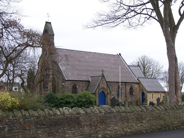 St Mary's parish church, Newton Road, Lowton Common, Greater Manchester, seen from the west